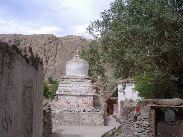 The Indus Valley at Alchi.